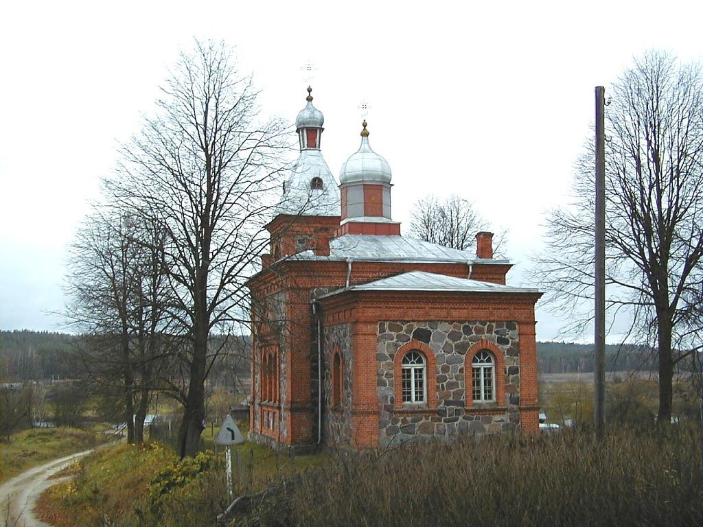 Kaplava Orthodox Church near VecborneLatviešu: Kaplavas Vissvētās Dievmātes patvēruma pareizticīgo baznīca